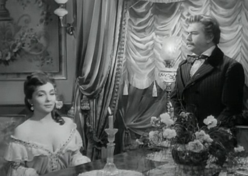 Wife for a Night (1952)